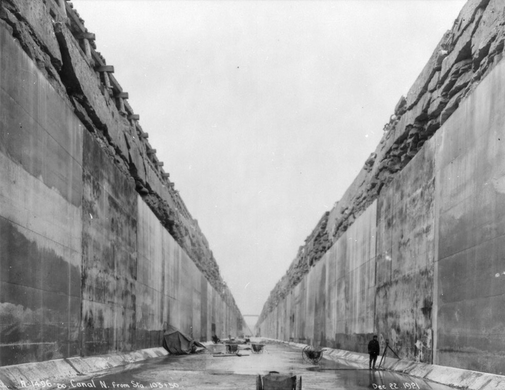 Queenston-Chippawa Power Canal near Niagara Falls, Ontario.